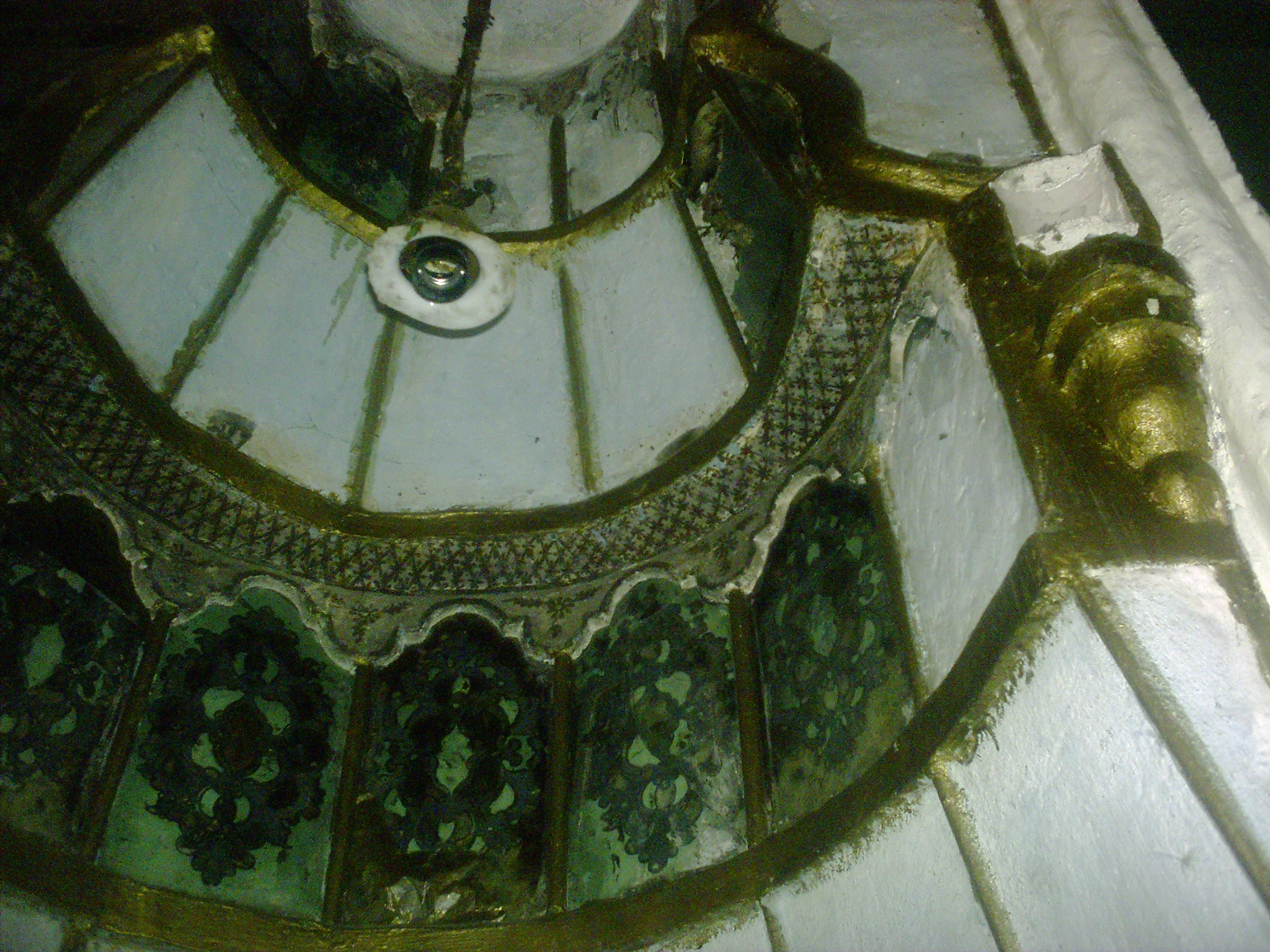 A detail of the Osman Pazvantooglu mosque in Vidin. Bulgaria